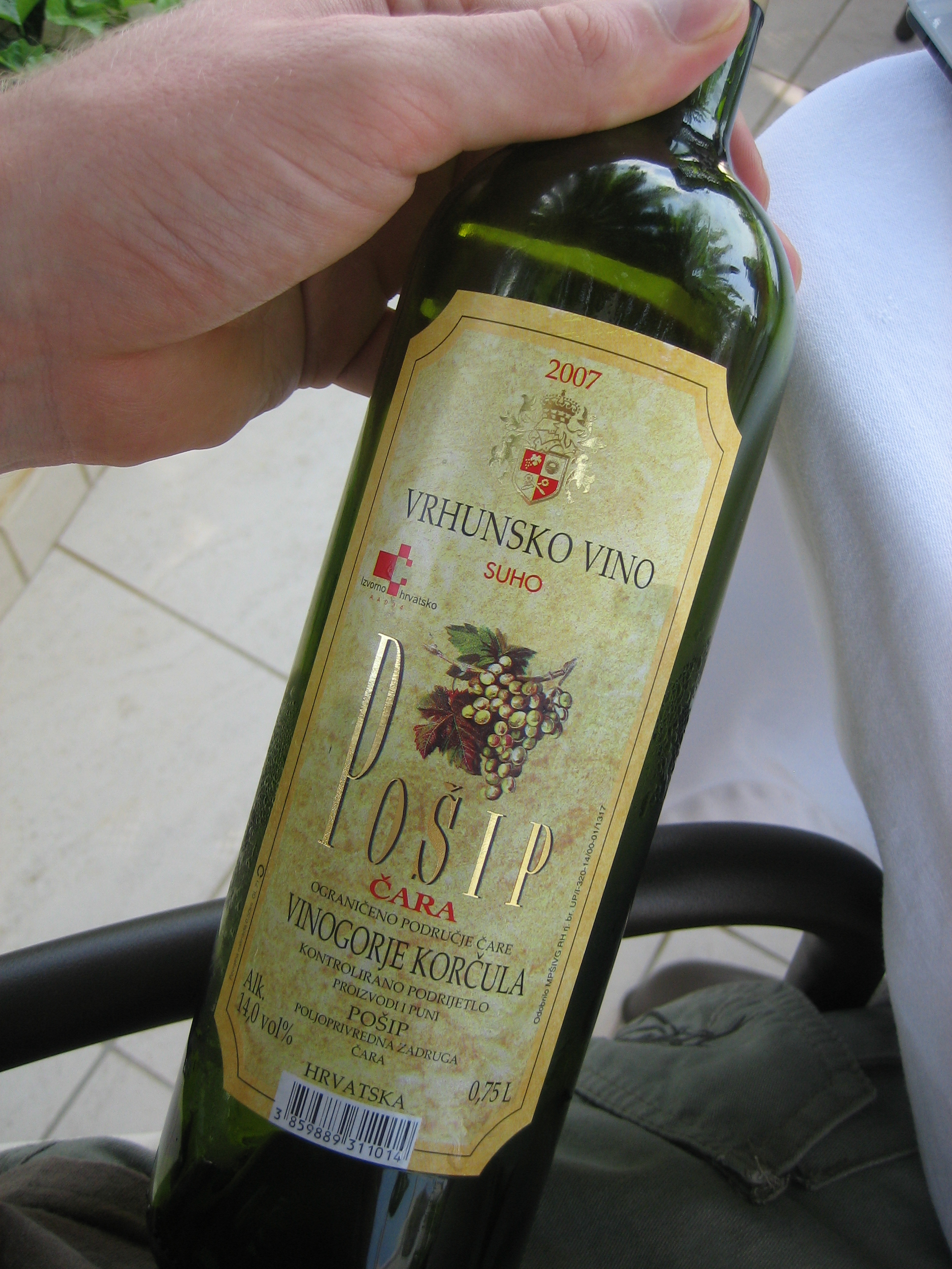 Croatian wine